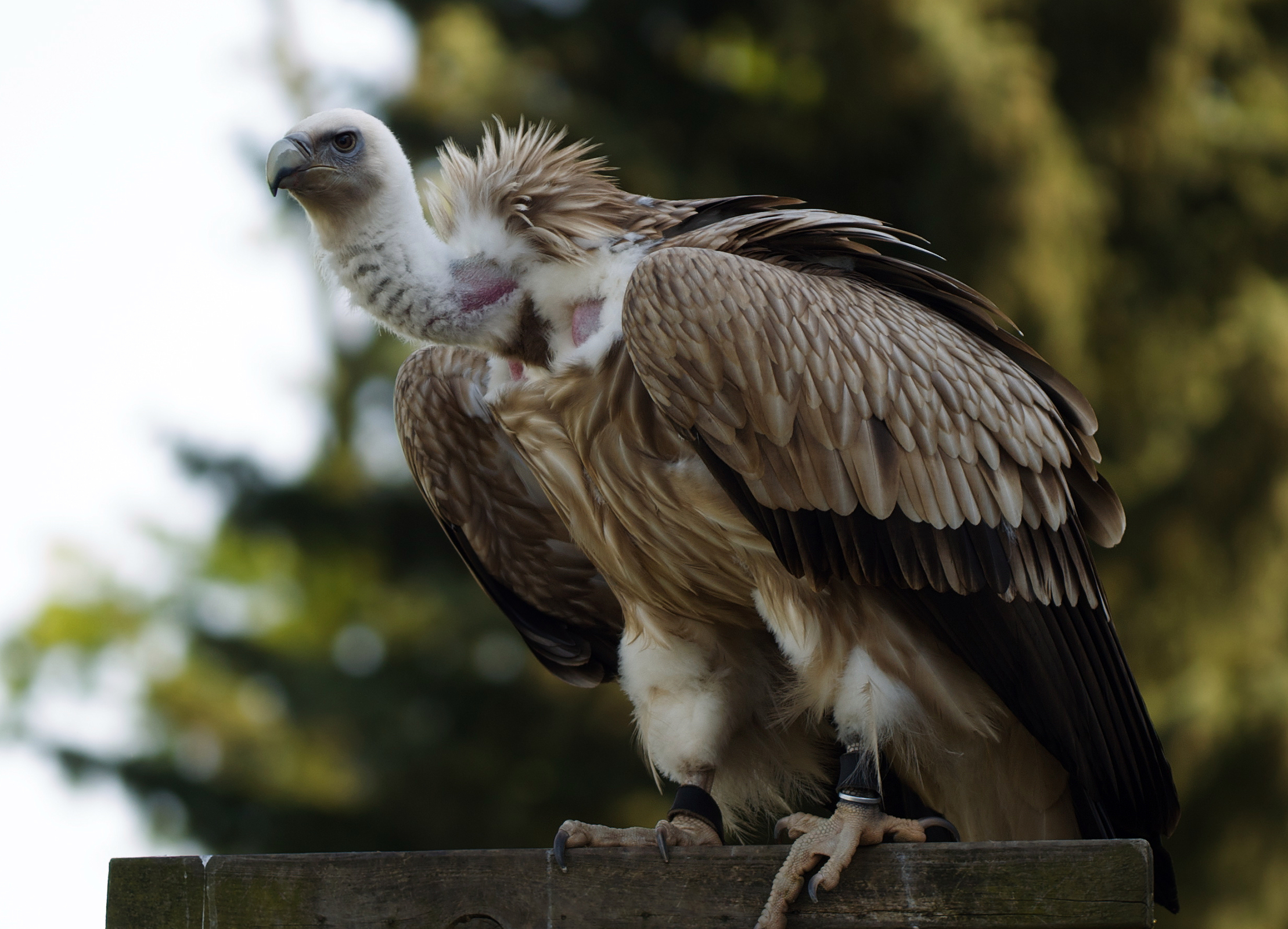 Griffon Vulture (Gyps fulvus), on a bird show on the castle Augustusburg, Germany